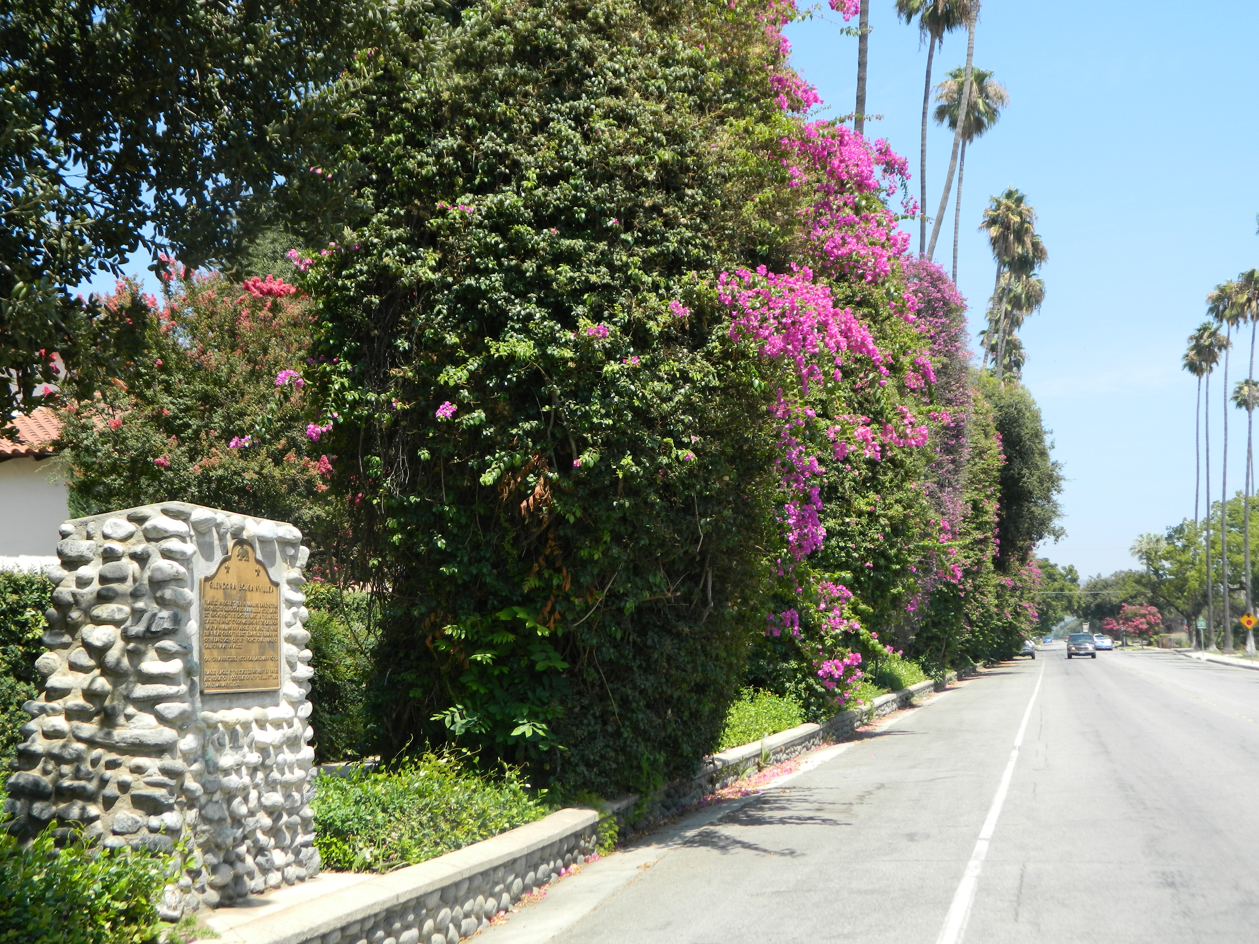 This is a picture of the Glendora Bougainvillea.